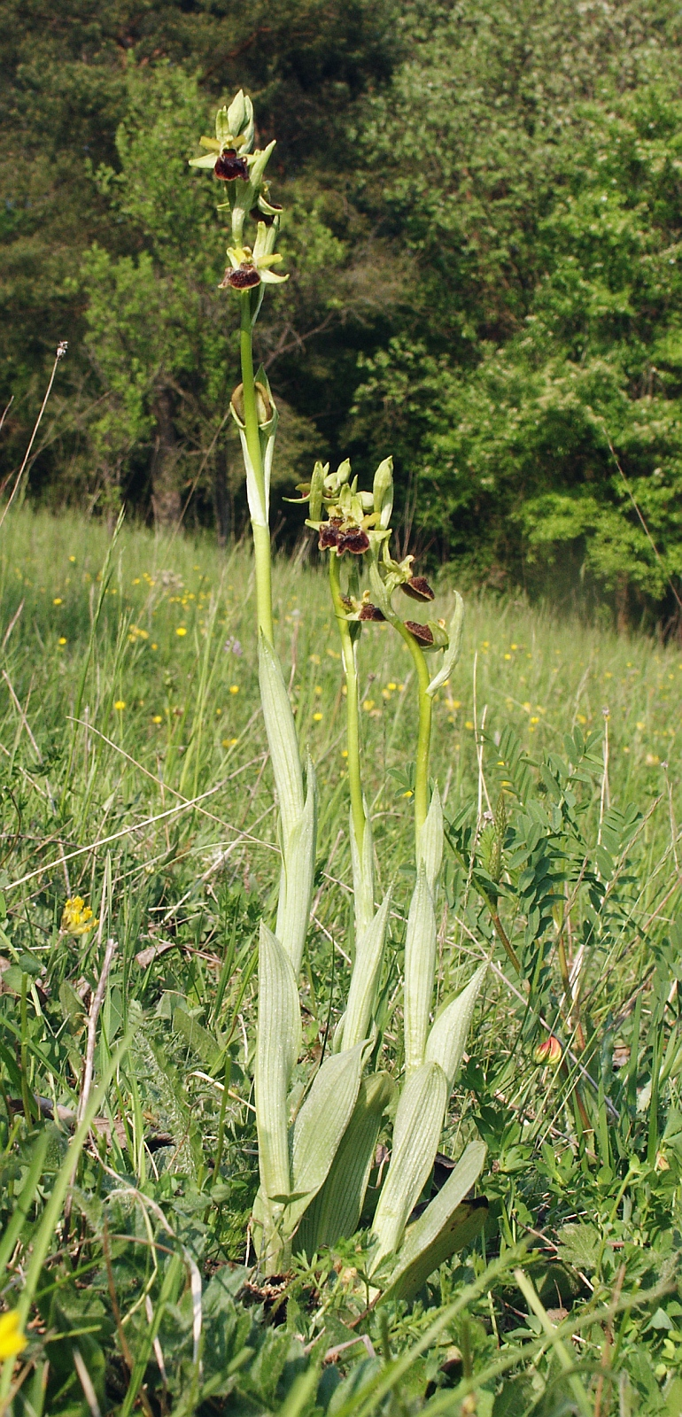 Ophrys sphegodes, Hohenlohe, Germany